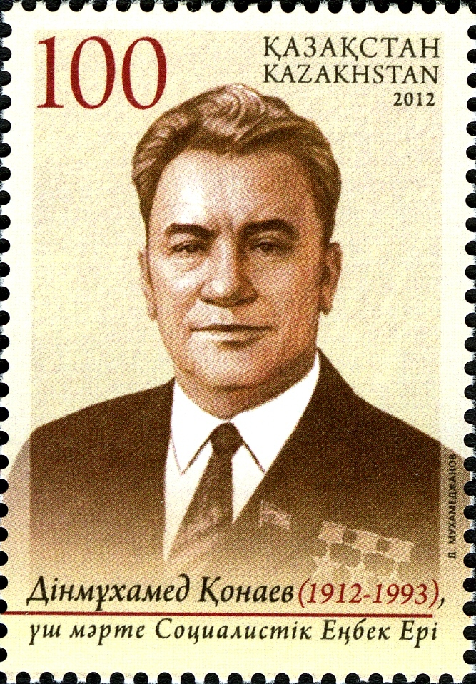 Stamps of Kazakhstan, 2012